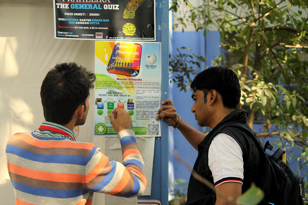 Photothon posters